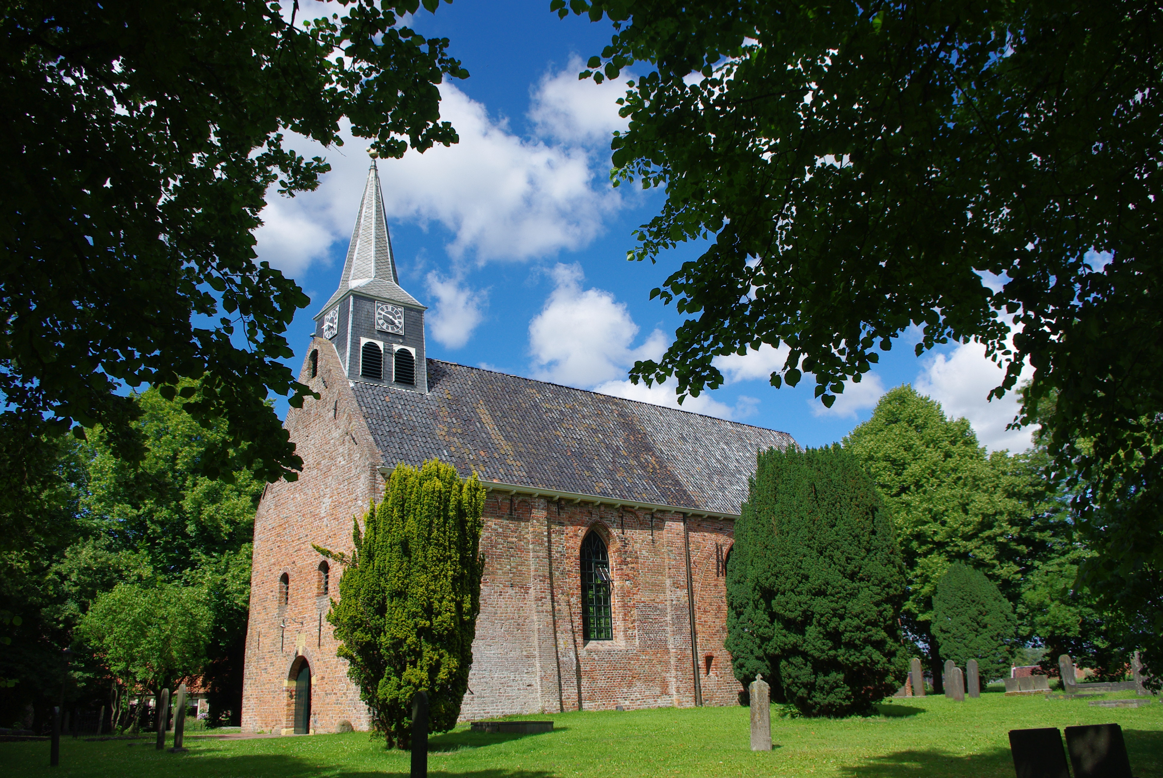 church in Westeremden